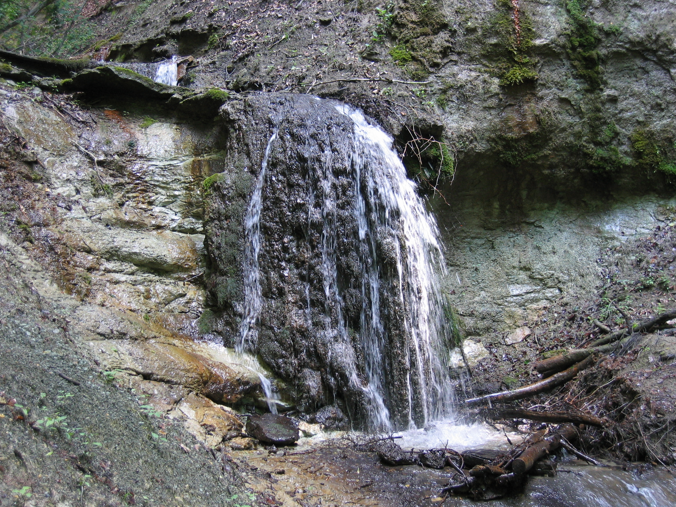 Small waterfall in the Hödinger Tobel near Überlingen/Germany